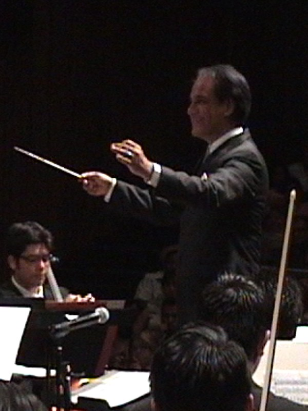 Armando Torres Chibrás conducting the Carlos Chávez Youth Symphony Orchestra during a tour to Los Cabos, July 2012.